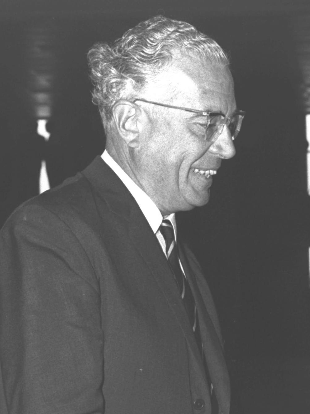 THE PRESIDENT OF THE CONSULTATIVE ASSEMBLY OF THE COUNCIL OF EUROPE SIR GEOFFREY DE FREITASAT THE NEW KNESSET BUILDING.